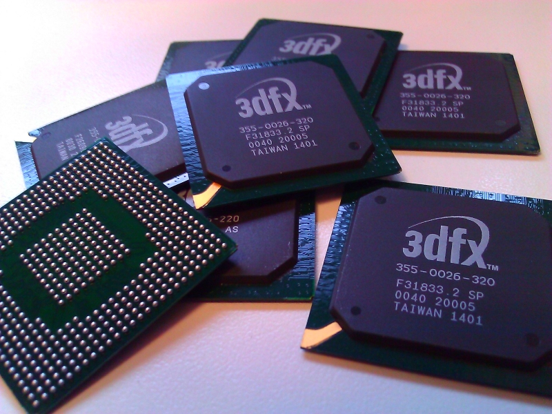 Shown here are the 3dfx VSA-100 revision 220 and 320 graphics processor ICs.